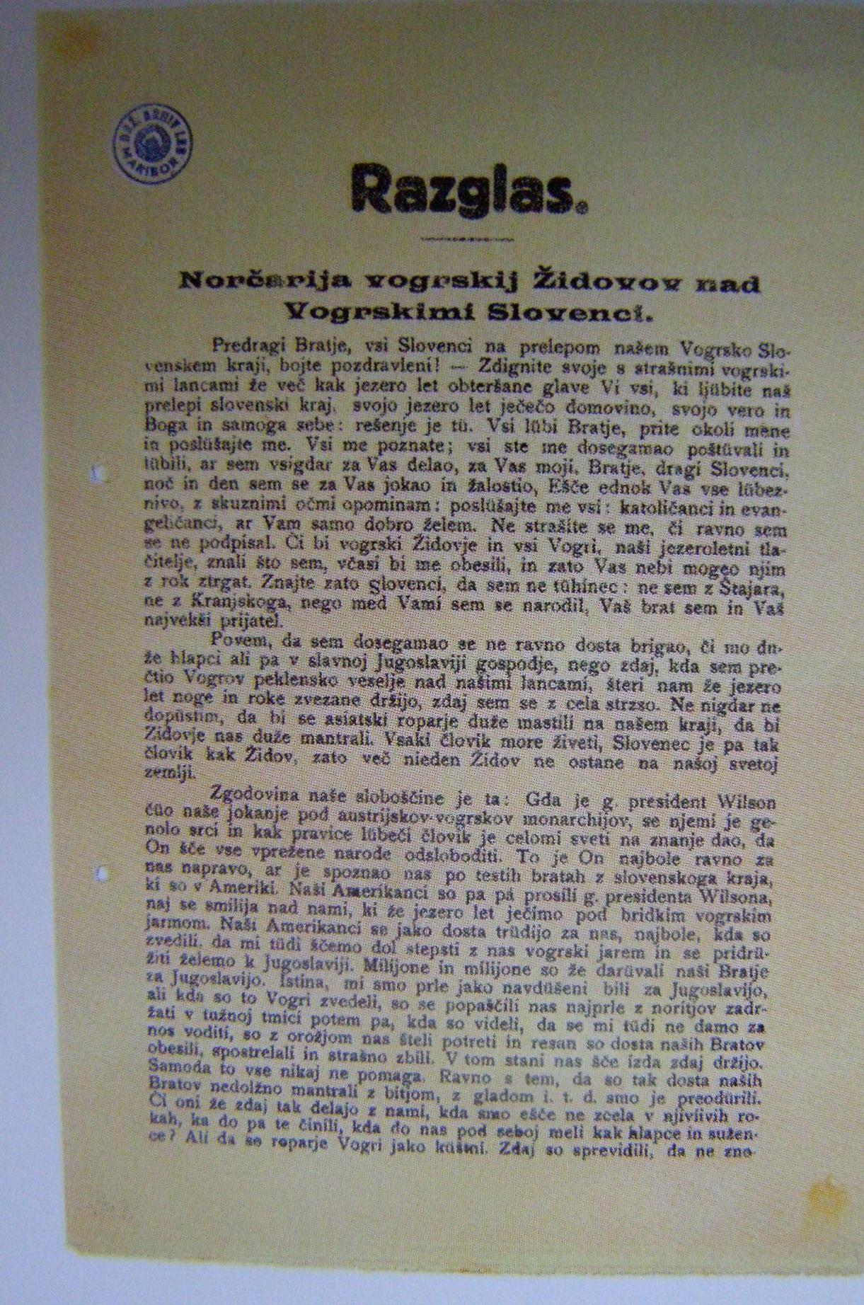 Anti-semite and hungarophobe yugoslaw poster in prekmurian language